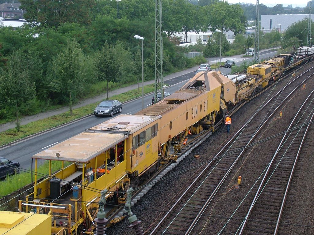 A track renewing train at work, in the background the old track, being replaced by the new one which can be seen in the foreground.